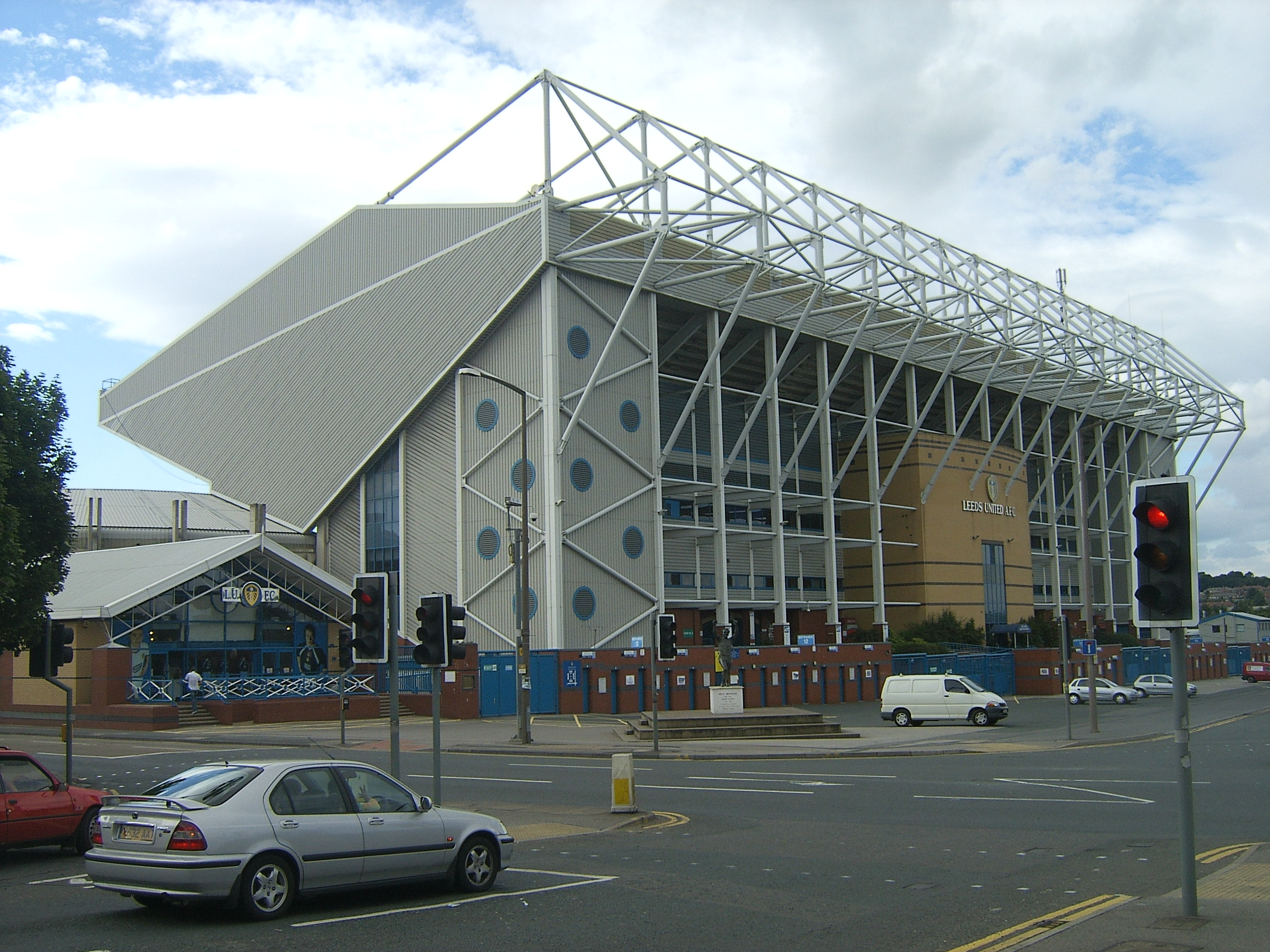 Leeds United's stadium, Elland Road.